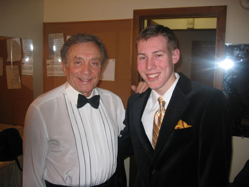 Al Martino backstage with fellow vocalist James DeFrances